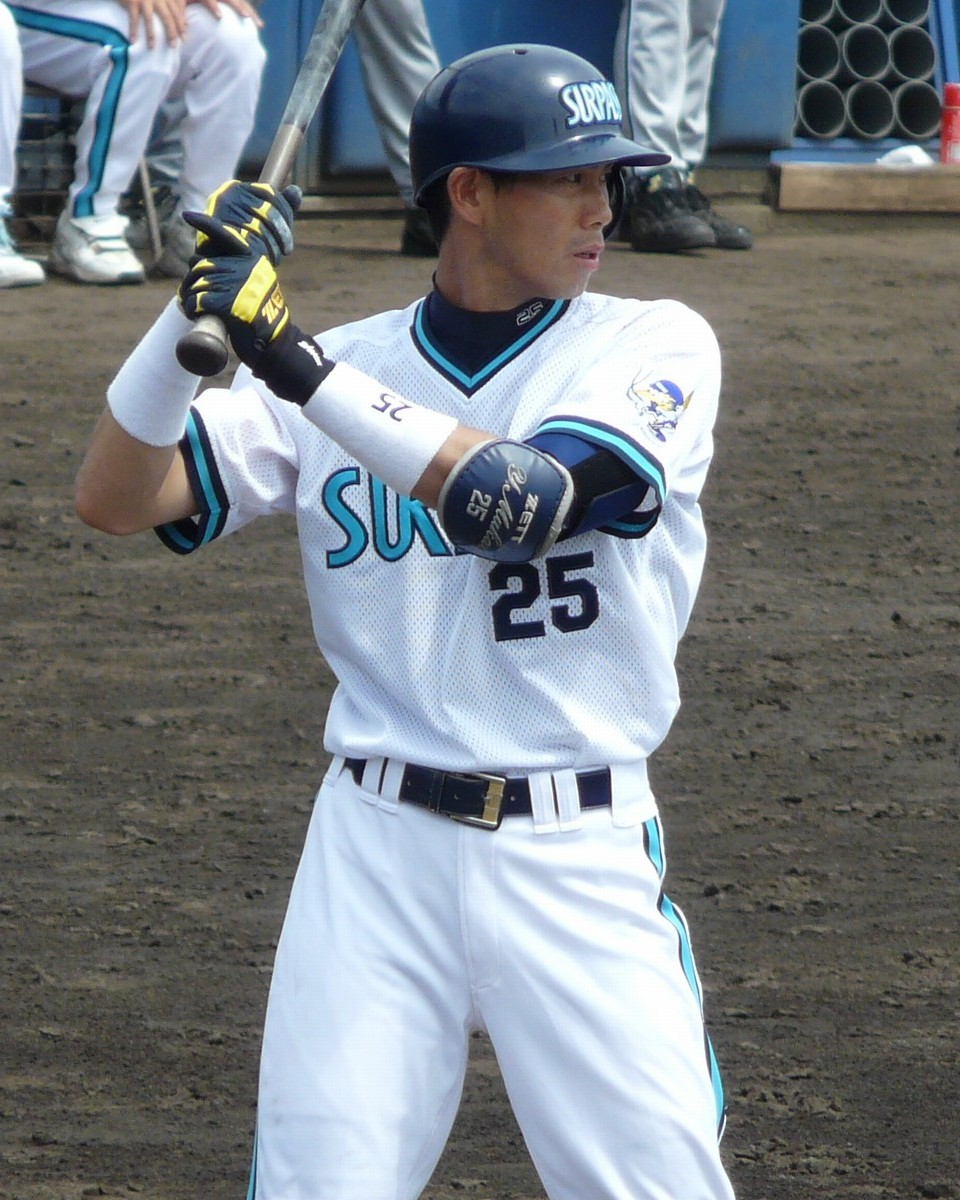 Yuichiro Mukae